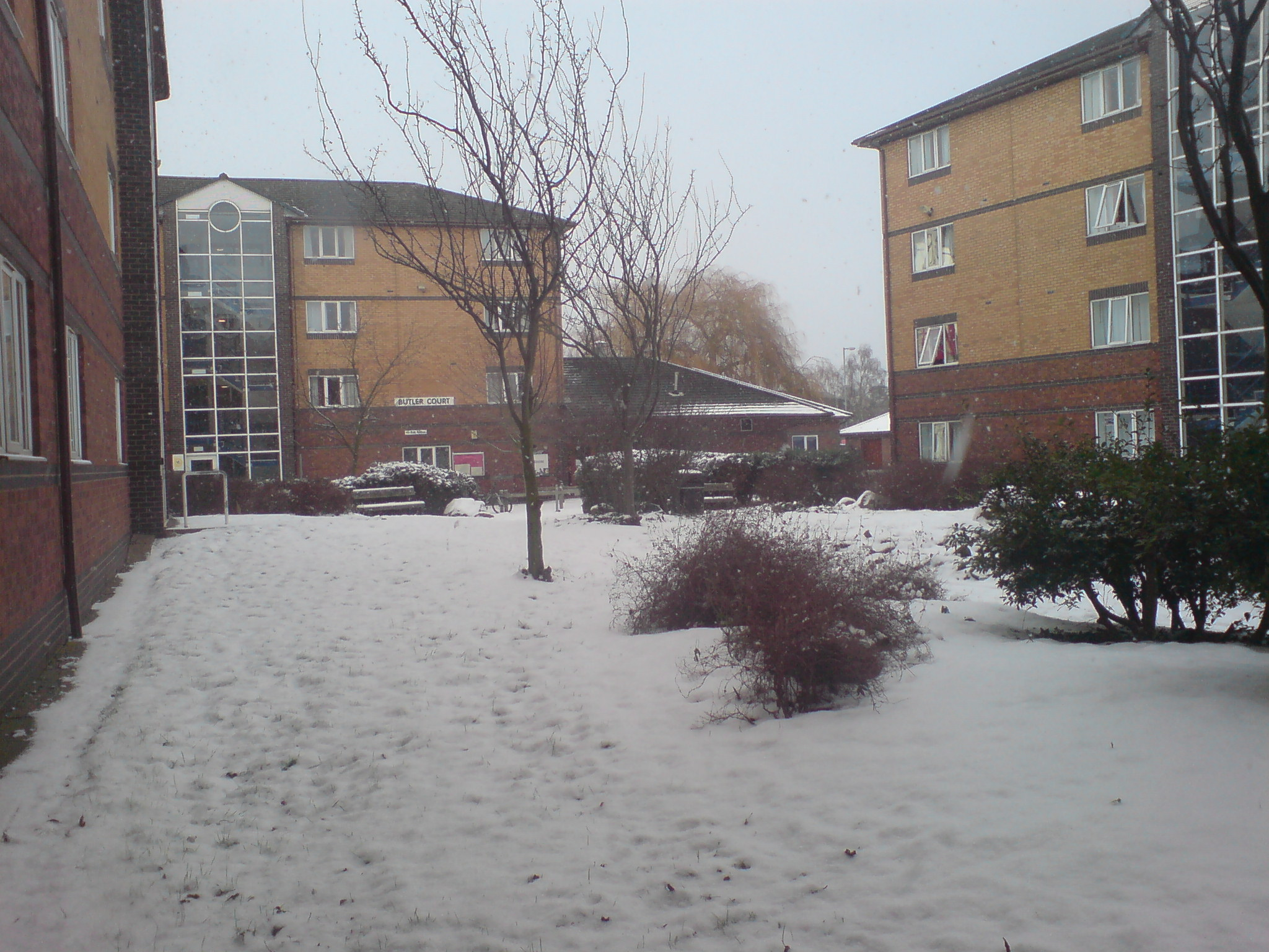 Landscape view of Butler Court hall of residence, Loughborough University, covered in snow.